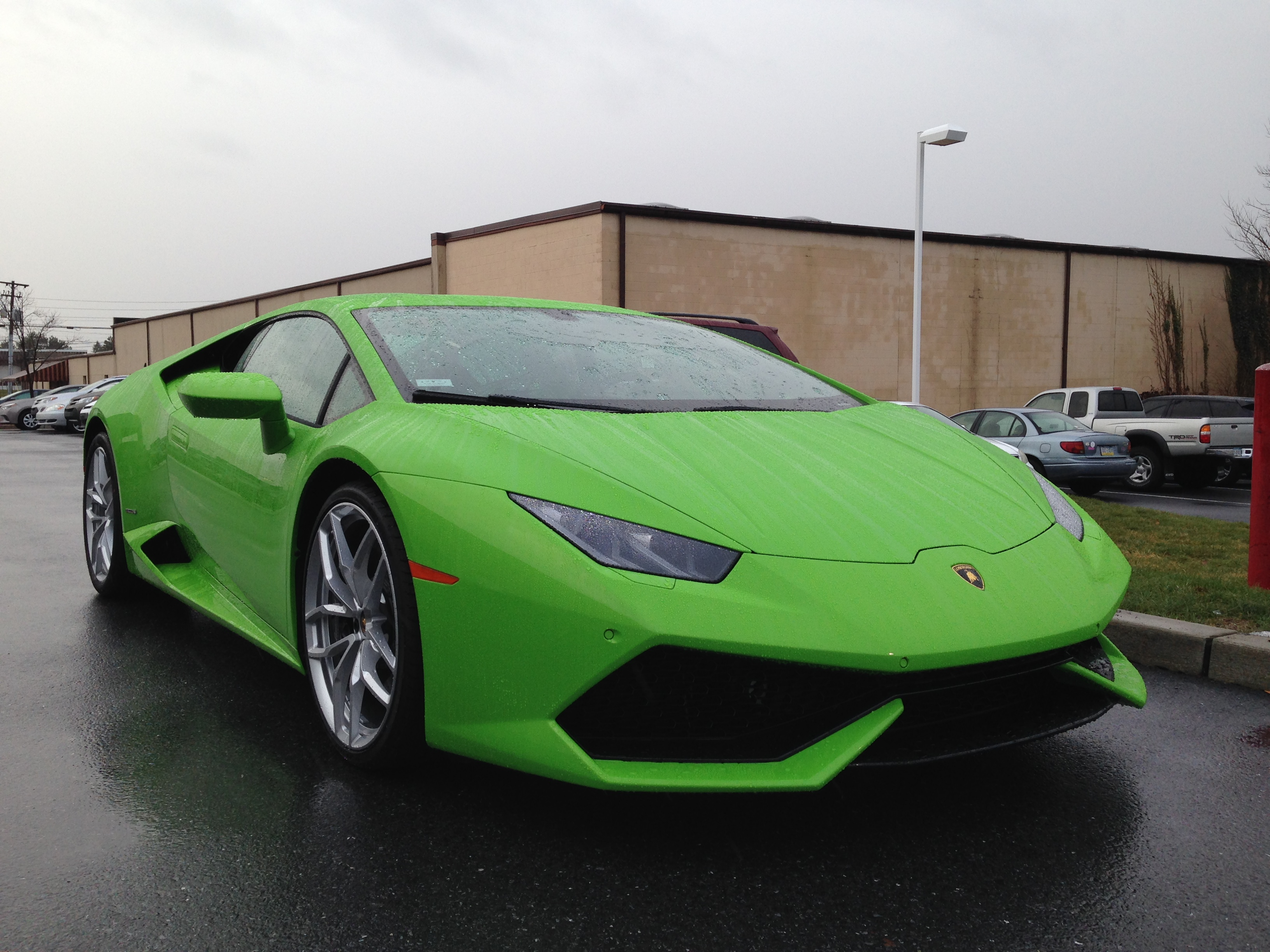 Lamborghini Huracan LP610-4